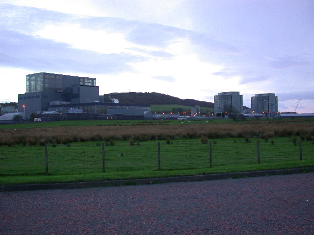 Hunterston Nuclear Power station. Hunterston "B" is on the left. The twin Magnox reactor buildings of Hunterston "A" (now being decommissioned) are on the right.